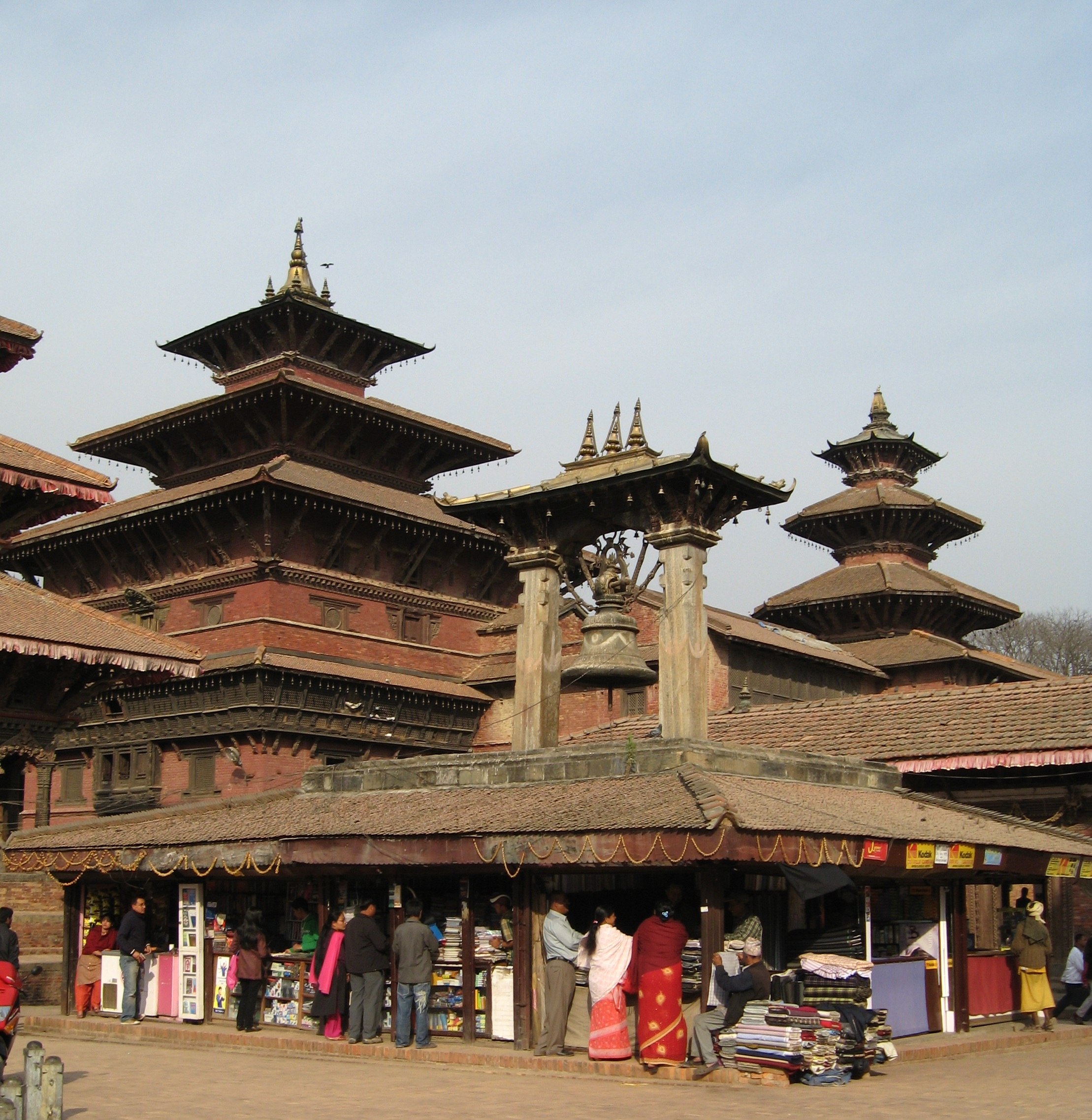 Taleju Temple (left), Taleju Bell (center), and Degutale Temple (right) at Patan Durbar Square in Kathmandu. Object location27° 40′ 24″ N, 85° 19′ 30″ E